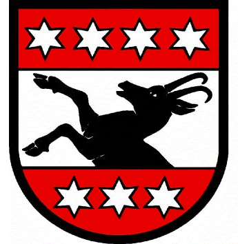 coat of arms city of Grindelwald (Switzerland)